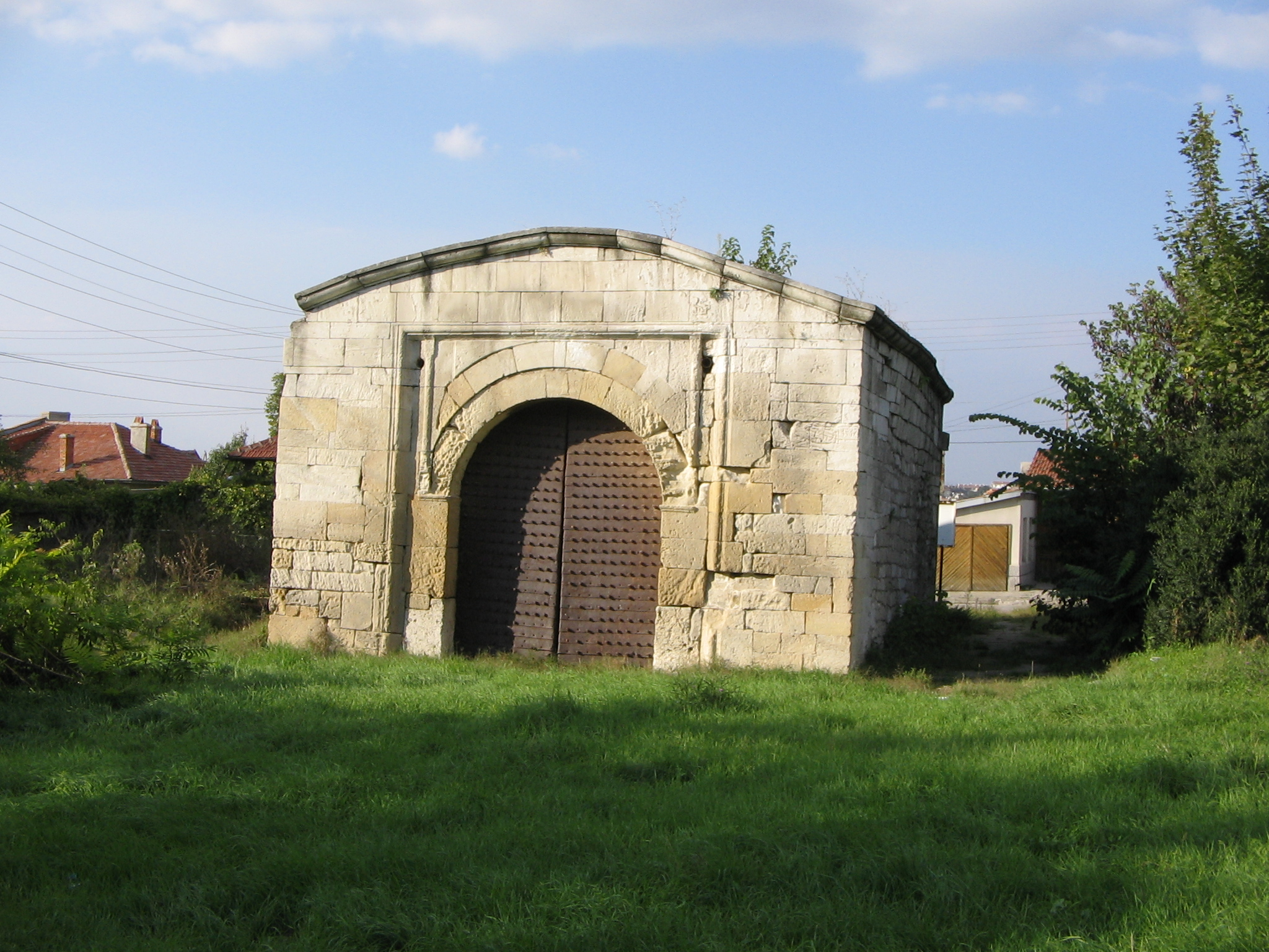 Kunt Kapu, the southern gate of the Rousse fortress during the Ottoman Rule of Bulgaria, built during the 1820s. This one of the fortress's five gates, and is the only one remaining today.